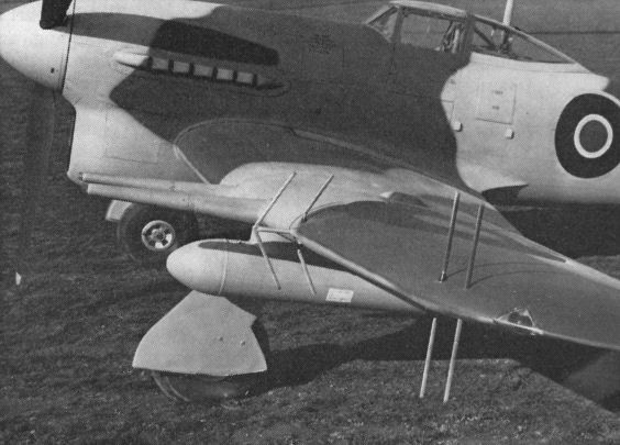 A single Hawker Typhoon Ia, R7881, experimentally fit with an AI Mk. VI radar. AI Mk. IV was a single-operator version of the Mk. IV, the first night fighter radar system. The electronics were packed into the underwing container that looks like a drop tank. One set of the horizontal receiver antennas can be seen. Other images of the aircraft show the same antenna layout on both wings, mirrored.